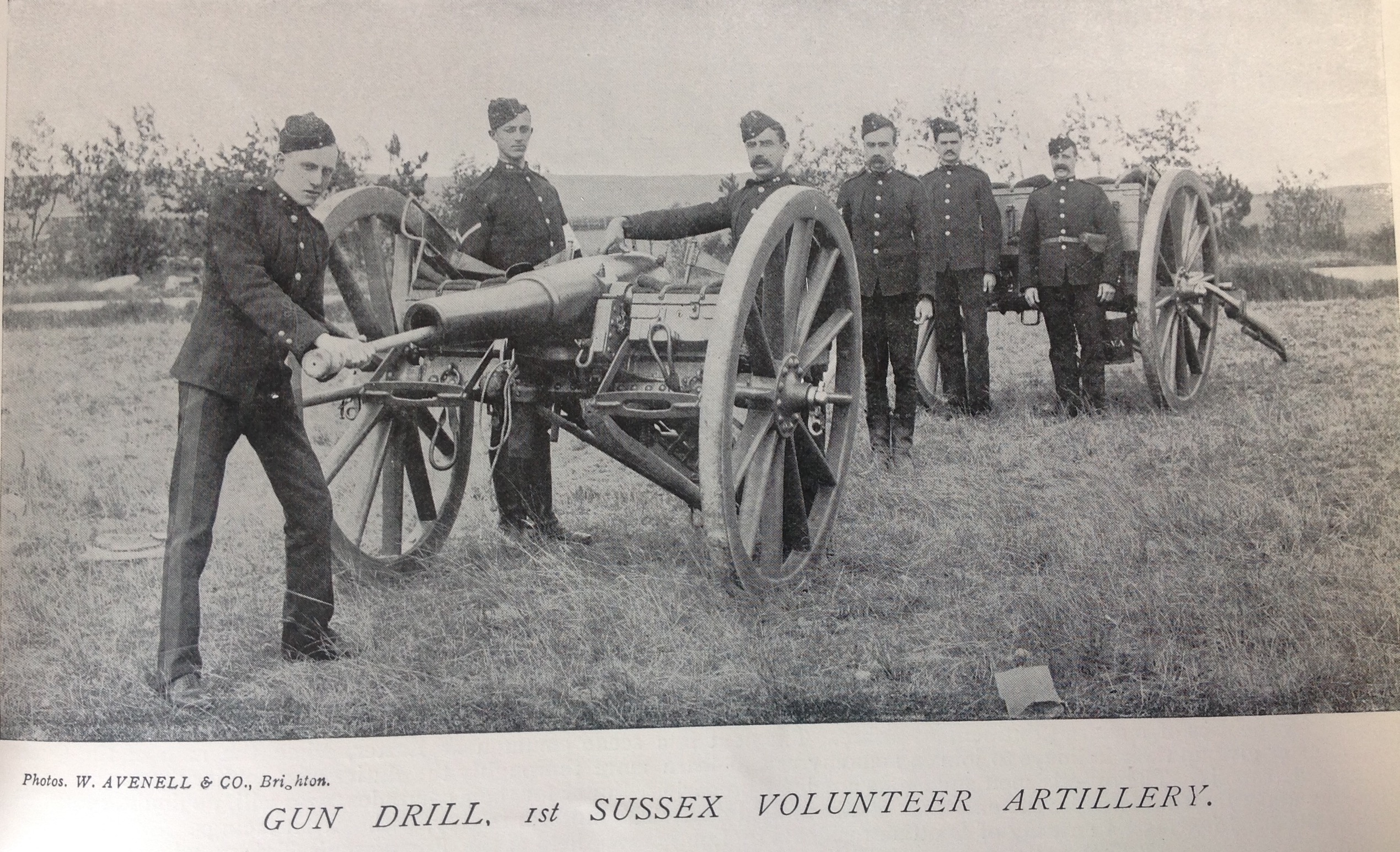 Men of the 1st Sussex Artillery Volunteers with 16 Pounder RML gun. Pictured in the Navy and Army Illustrated published on 9 April 1896